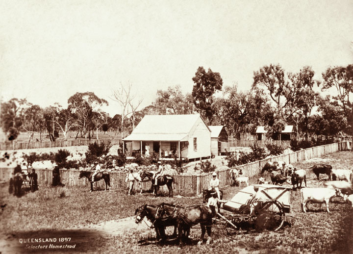 Selectors Homestead. (Register listing indicates Cairns. (includes house, garden and fence; riders on horseback, horse-drawn vehicles, livestock); Oblong cottage with distinctive zig zag roofline.)